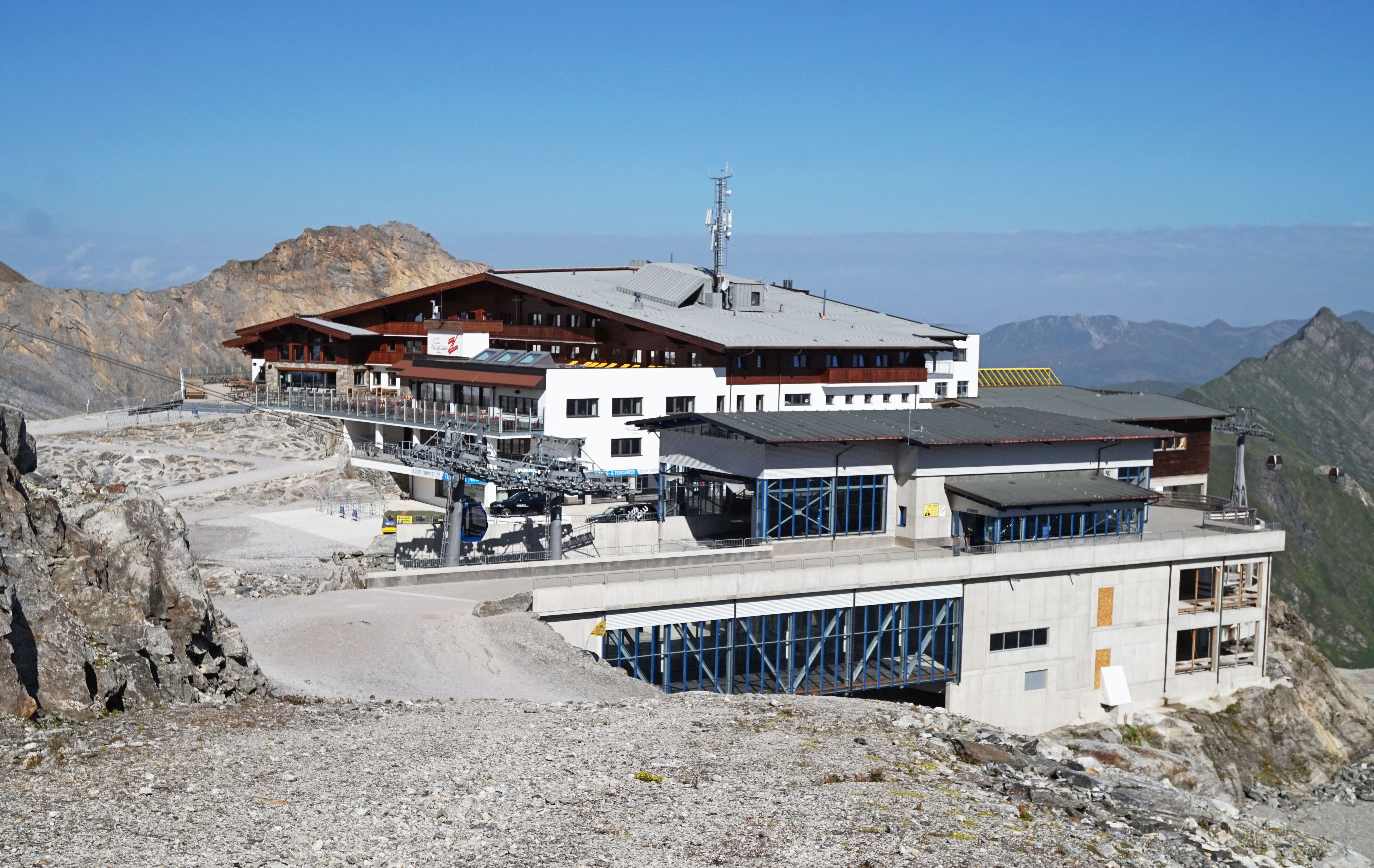 Tuxer Fernerhaus in Hintertux, Austria. This photograph was taken with a Sony Alpha a5000.